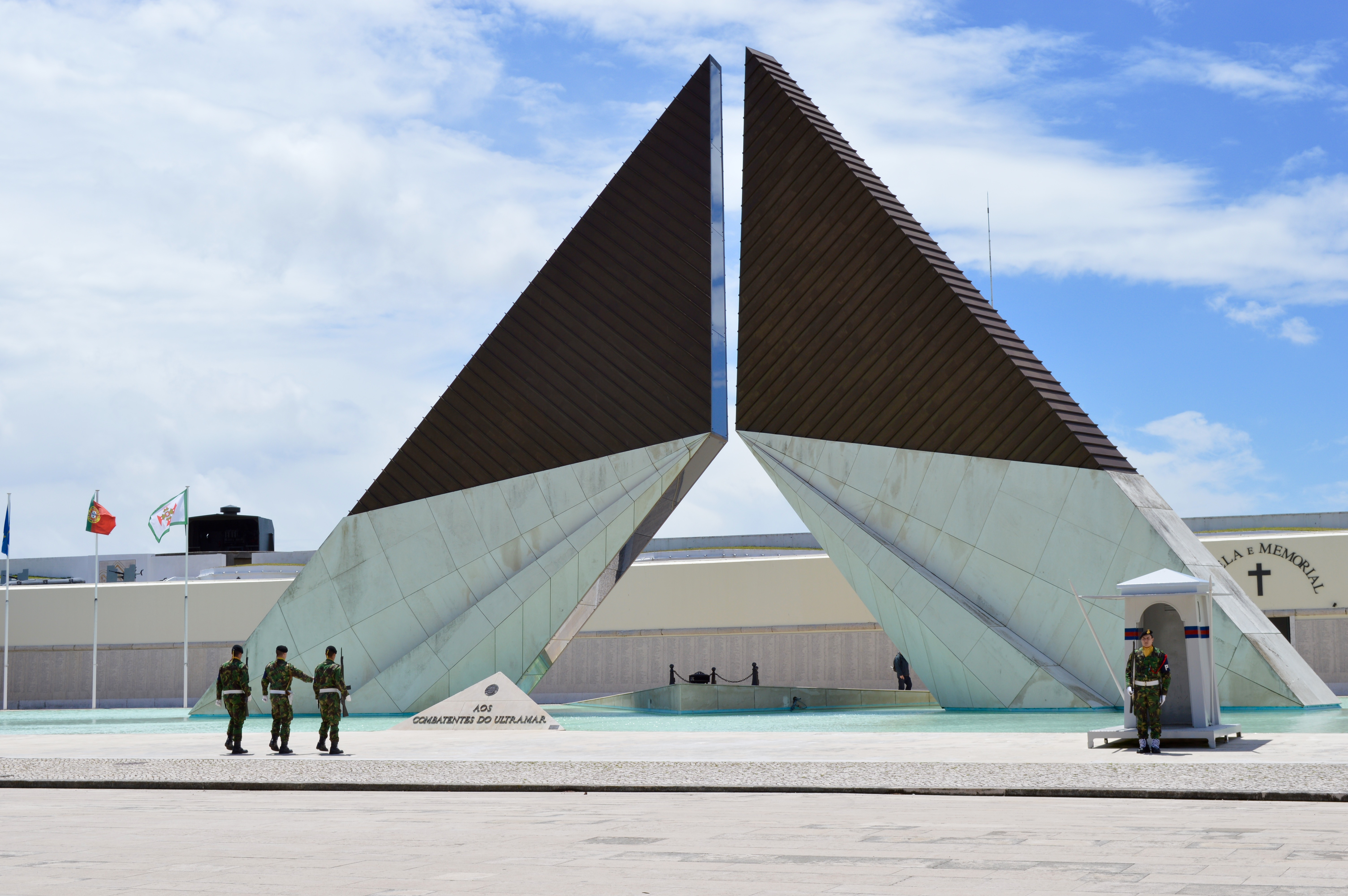 Memorial Monument of the overseas fallen soldiers; Lisbon, Portugal